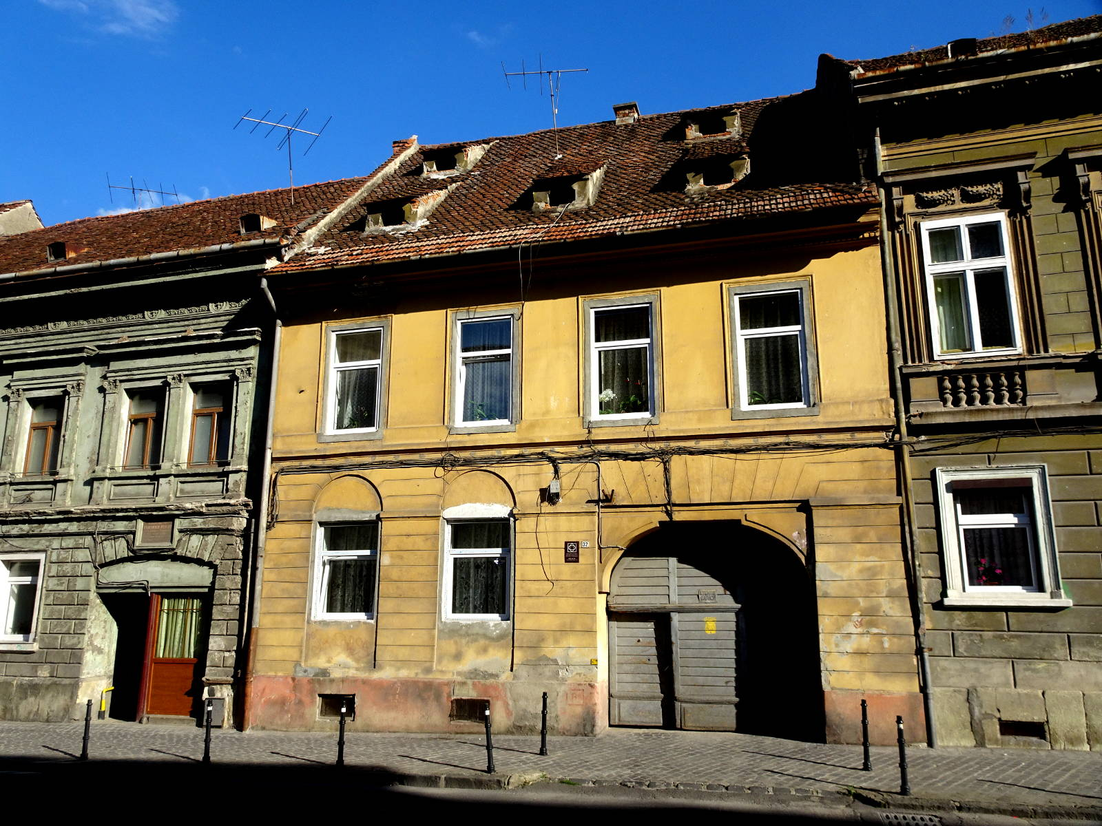 House in Bălcescu street, Brașov